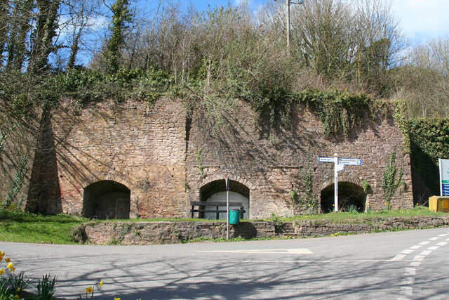 Burlescombe: by Westleigh Quarry. Old limekilns stand by the entrance to the quarry at Westleigh. Looking north west